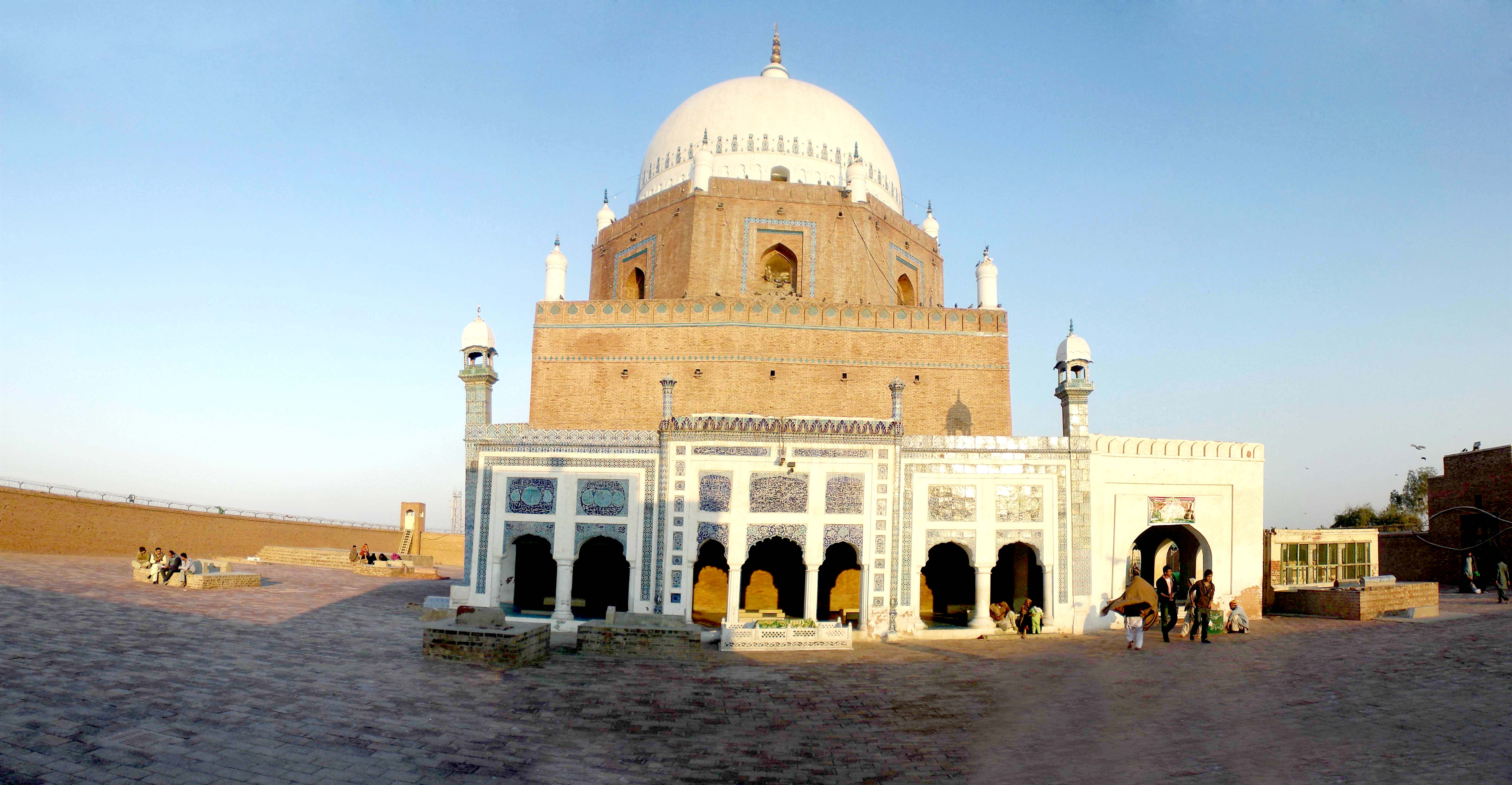 Shrine of Shah Rukn-e-Alam Multani